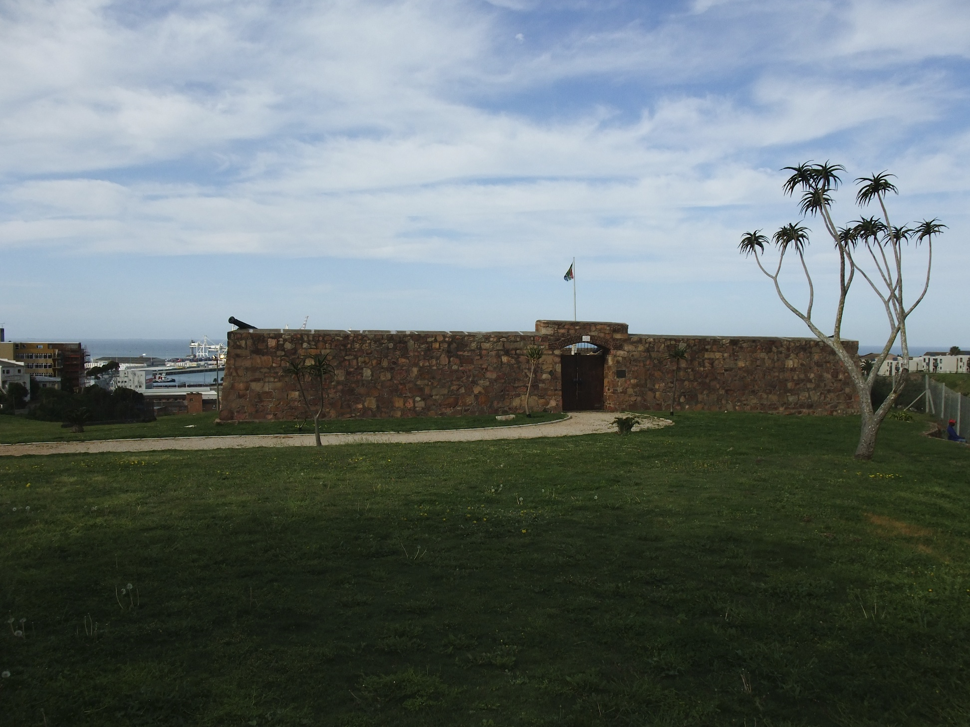 Fort Frederick, Belmont Terrace, Port Elizabeth This media shows a South African Protected Site with SAHRA file reference 9/2/073/0006.